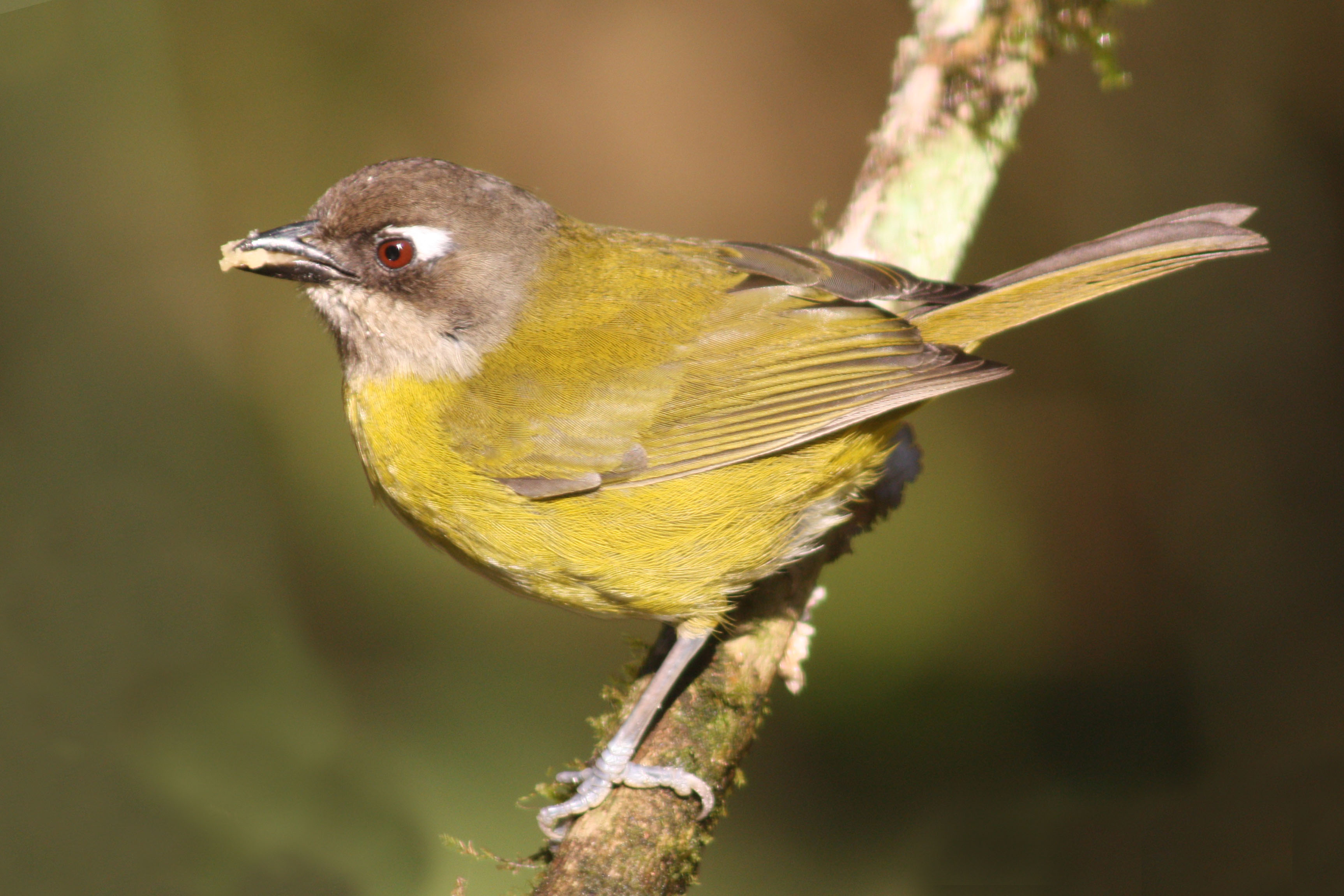 Common bush-tanager (Chlorospingus flavopectus regionalis) in Bajos del toro, Costa Rica